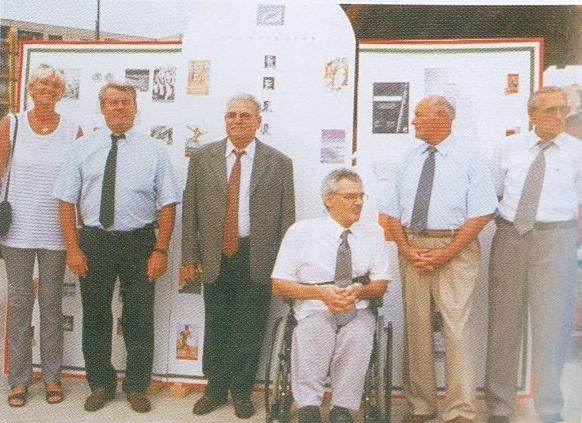 Millennium celebration in Dorog's stadium